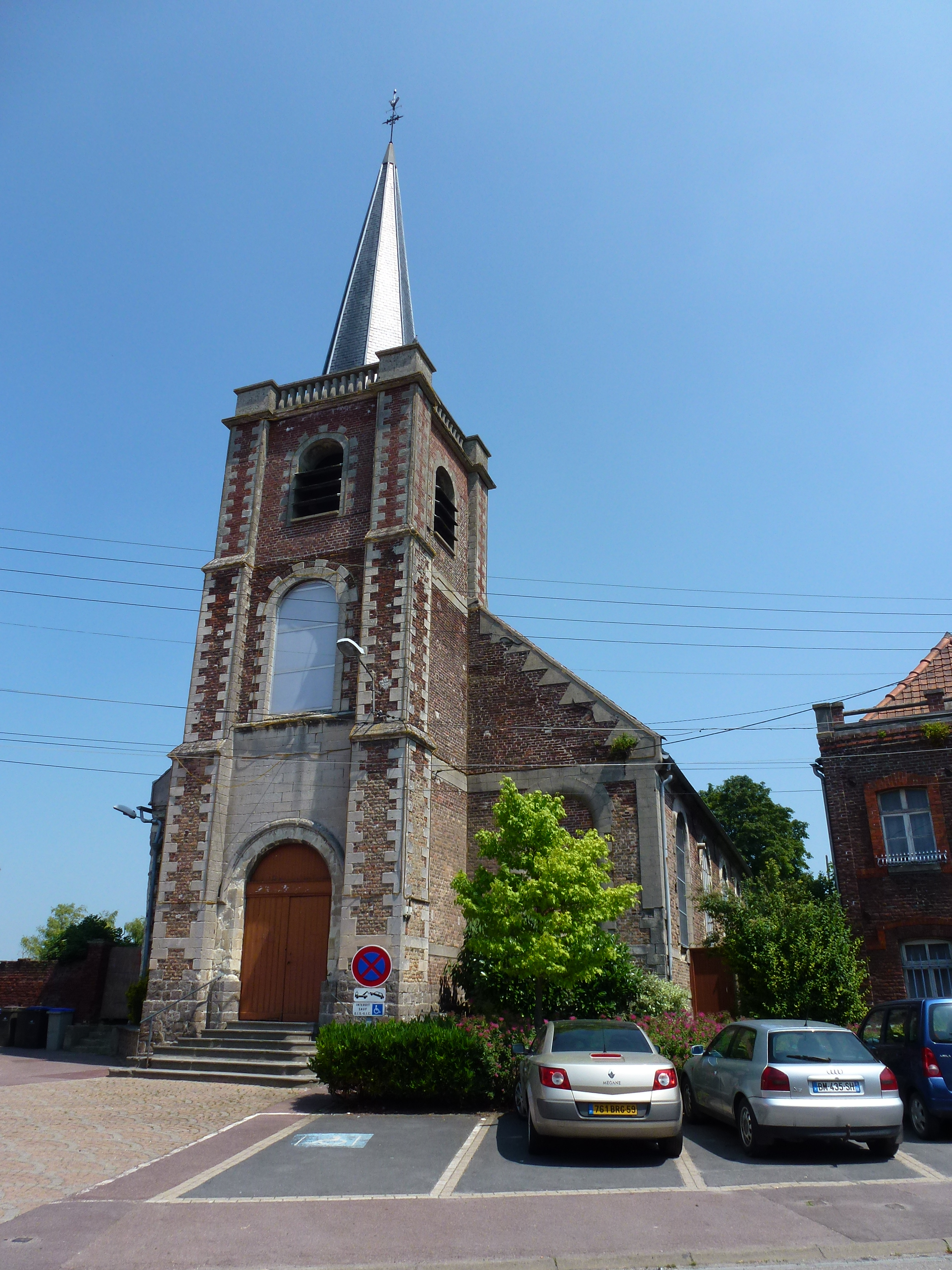 Hélesmes (Nord, Fr) église